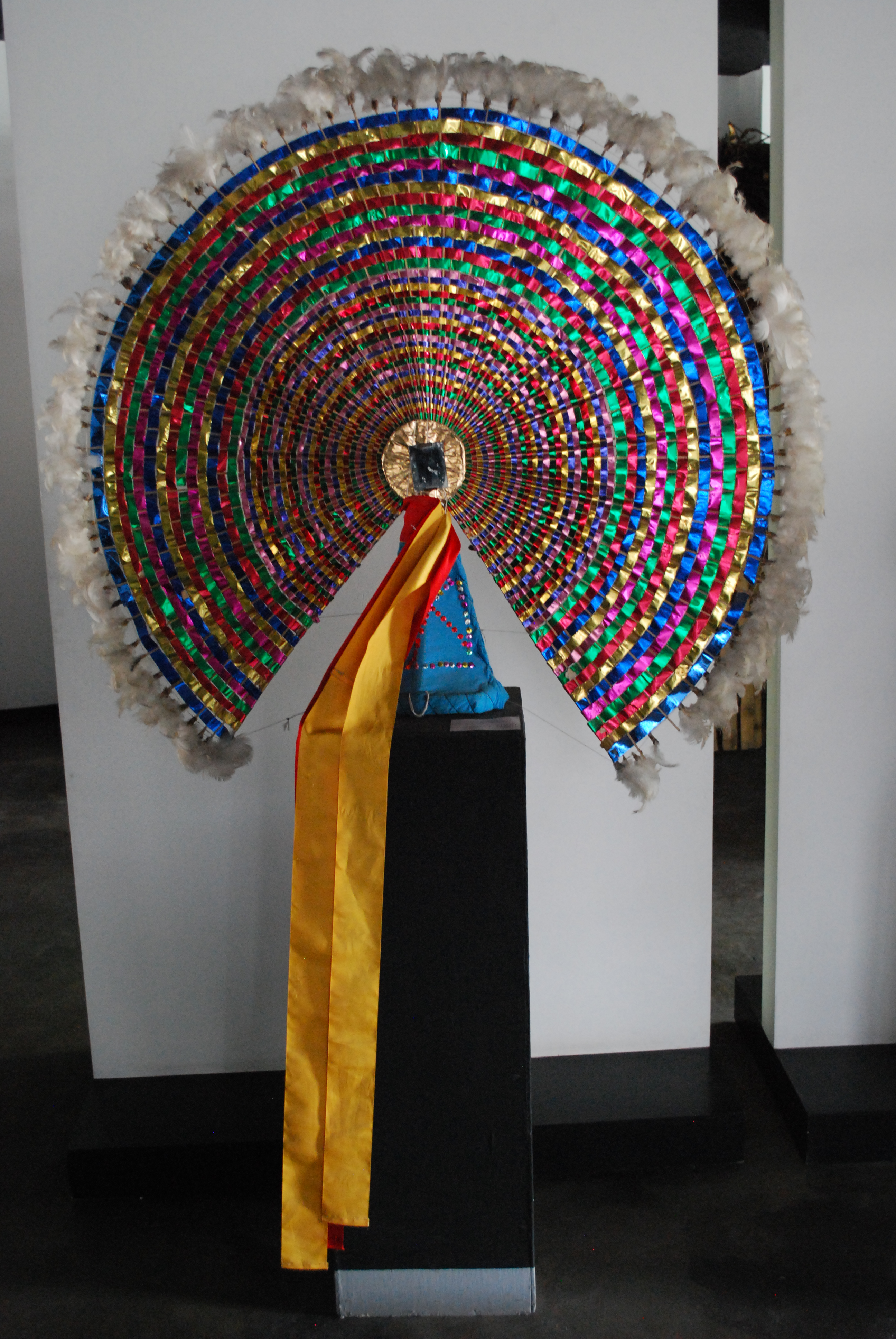 Headdress used for the Dance of the Huahuas in Papantla. On display at the Teodoro Cano Garcia Museum in Papantla, Veracruz, Mexico